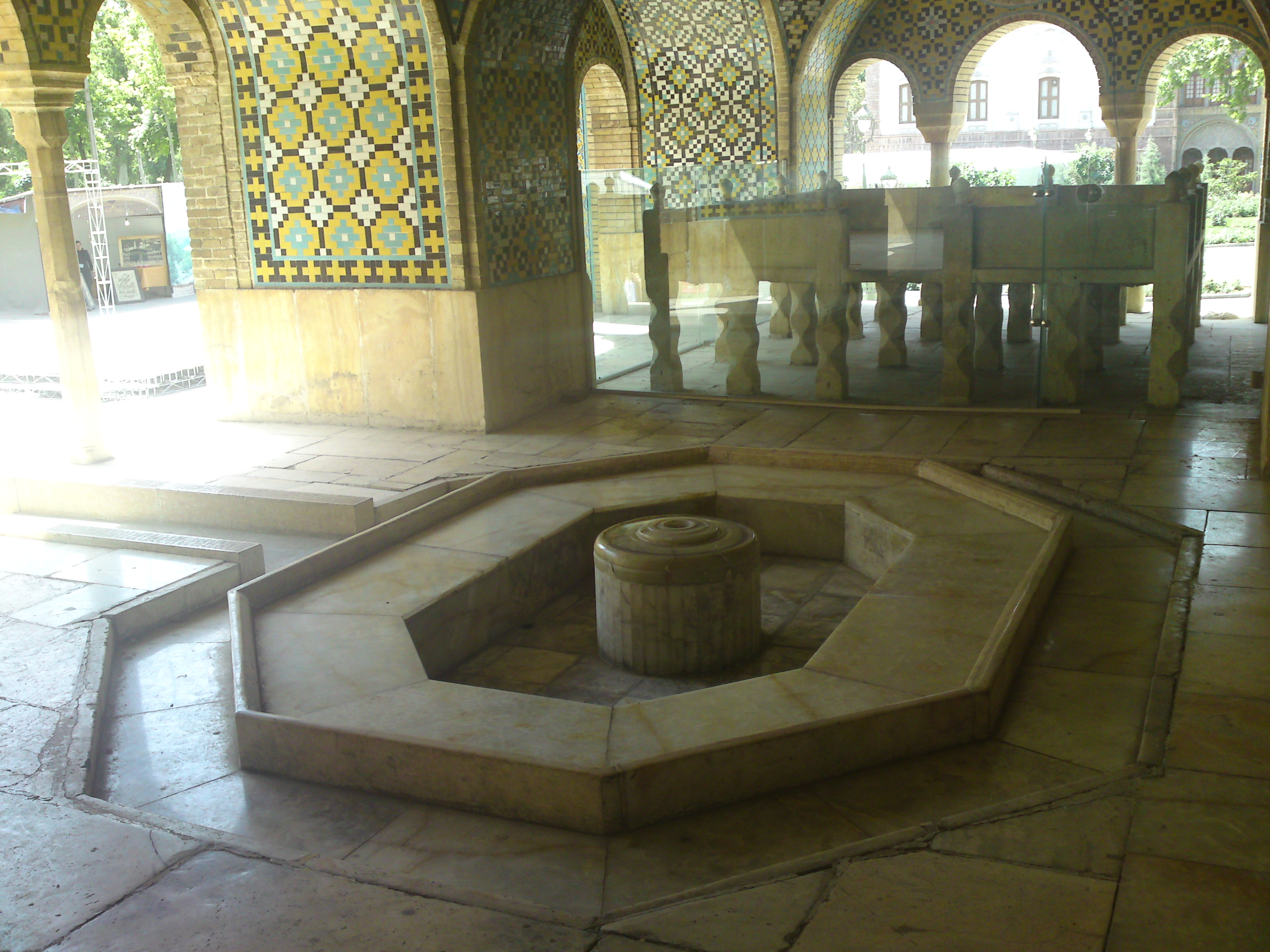 Takht Marmar Fat′h-Ali Shah Qajar and Howz Khaneh